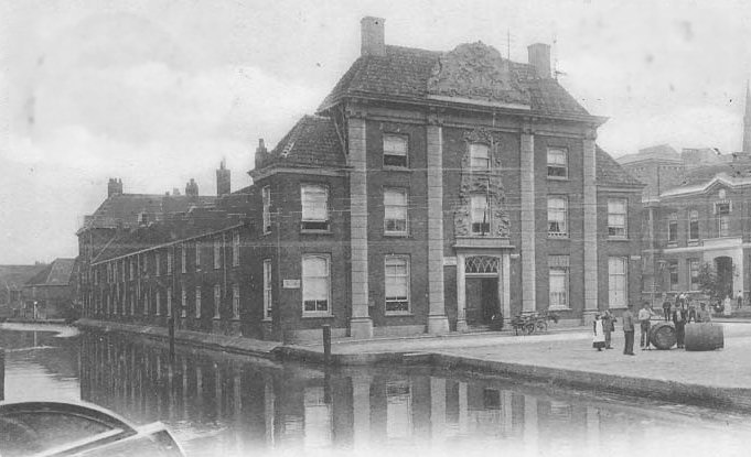 Picture of a postcard from 1900, unknown author